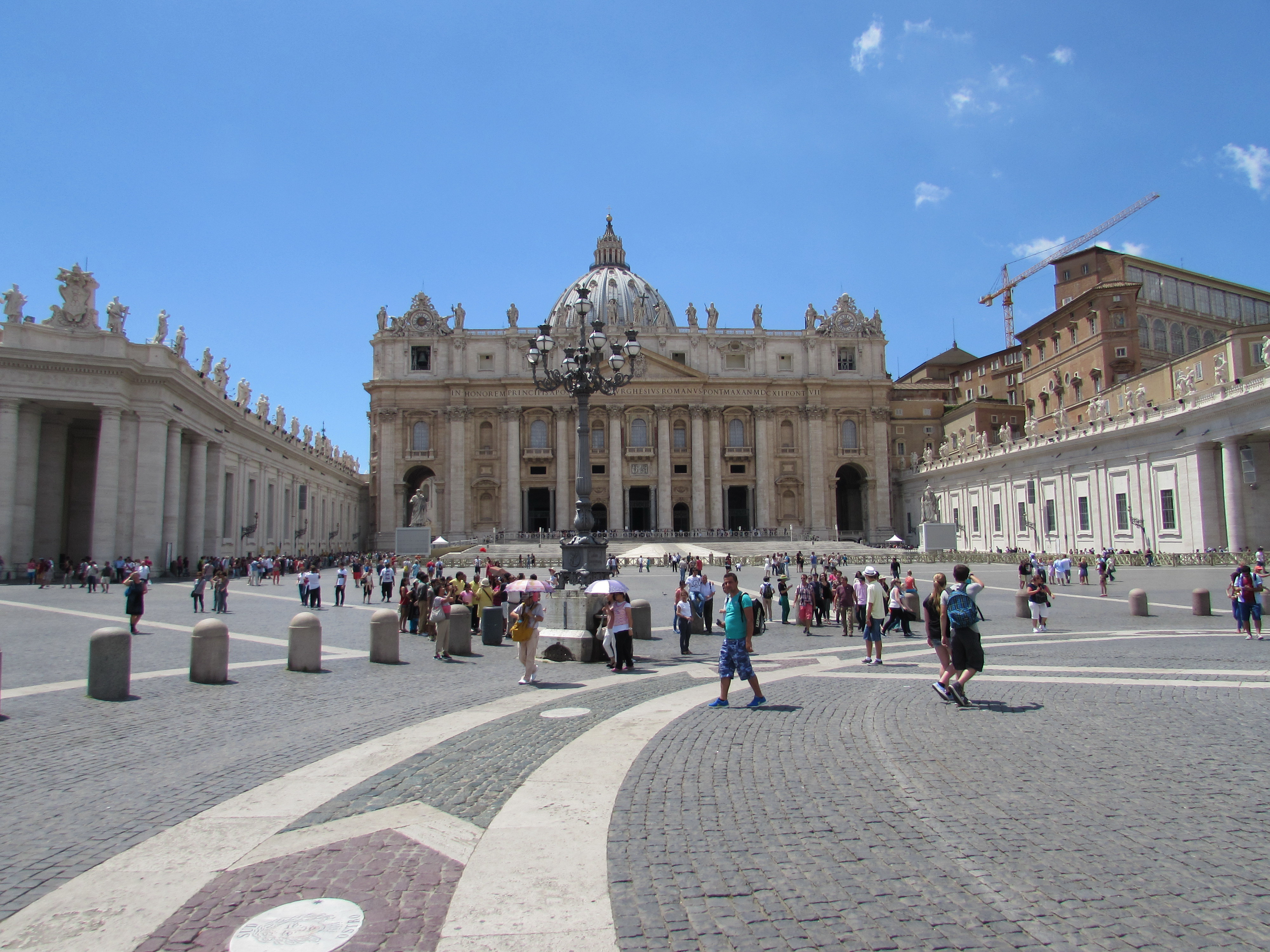 St. Peter's Basilica, Rome, Italy